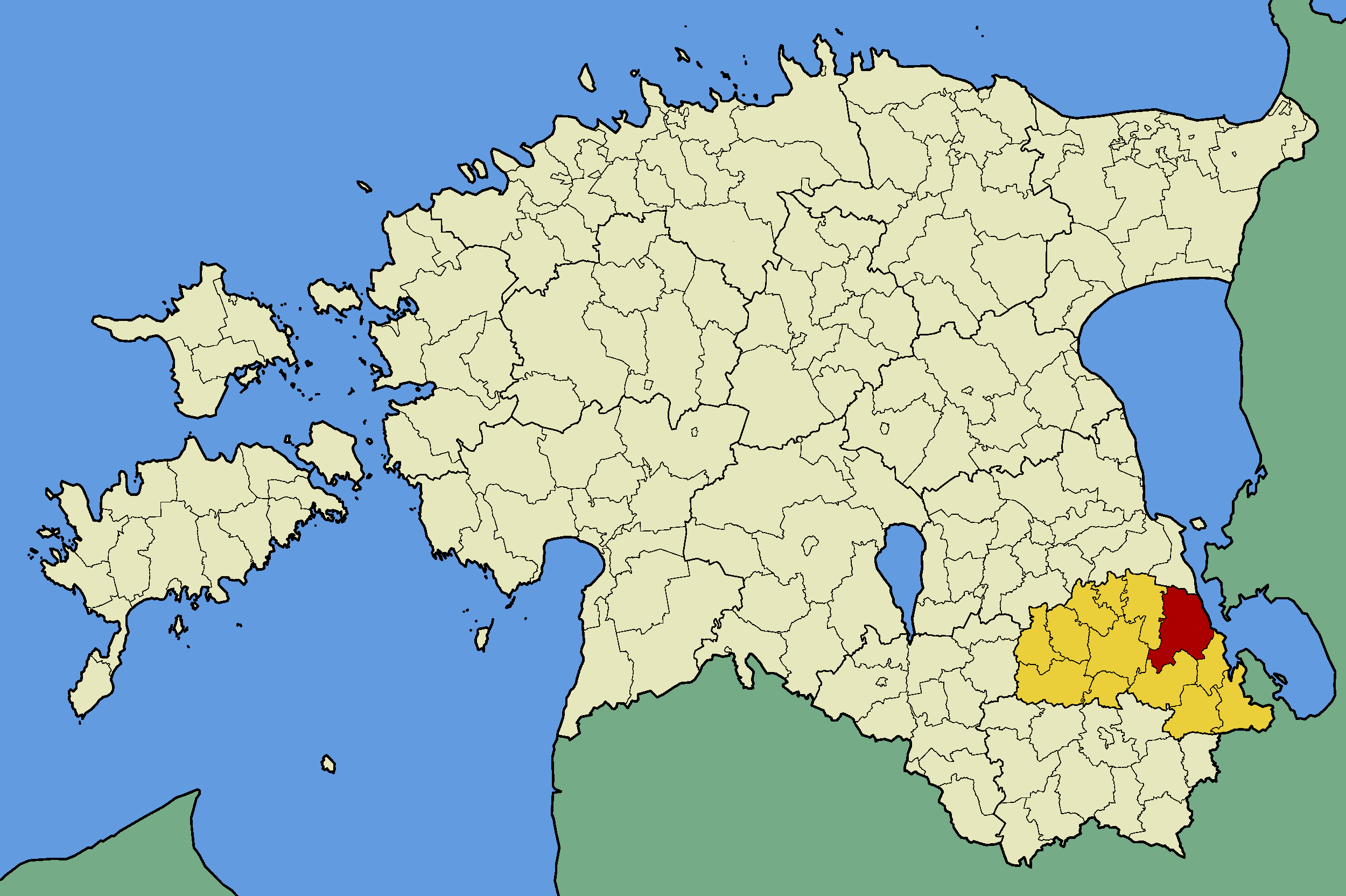 Map of Estonia with borders of municipalities (parishes). Põlva county and Räpina municipality emphasized.